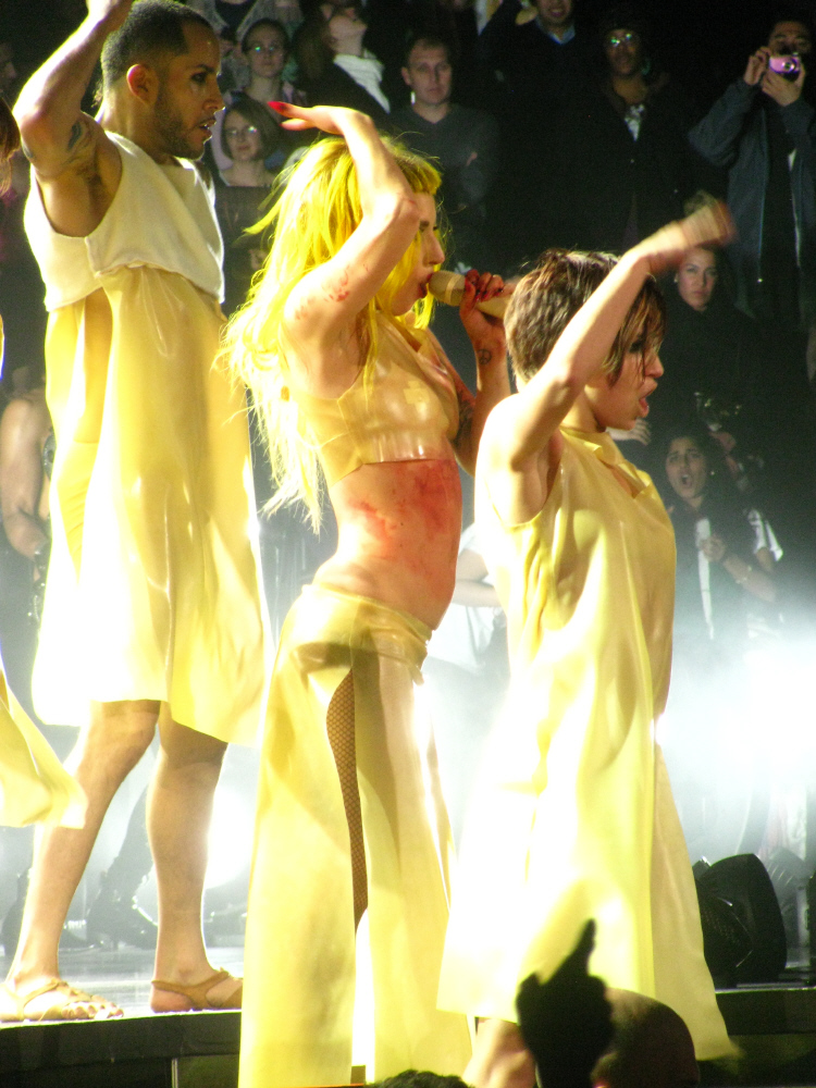 Lady Gaga performing "Born This Way" on The Monster Ball Tour (Air Canada Centre in Toronto, Ontario on March 3, 2011).